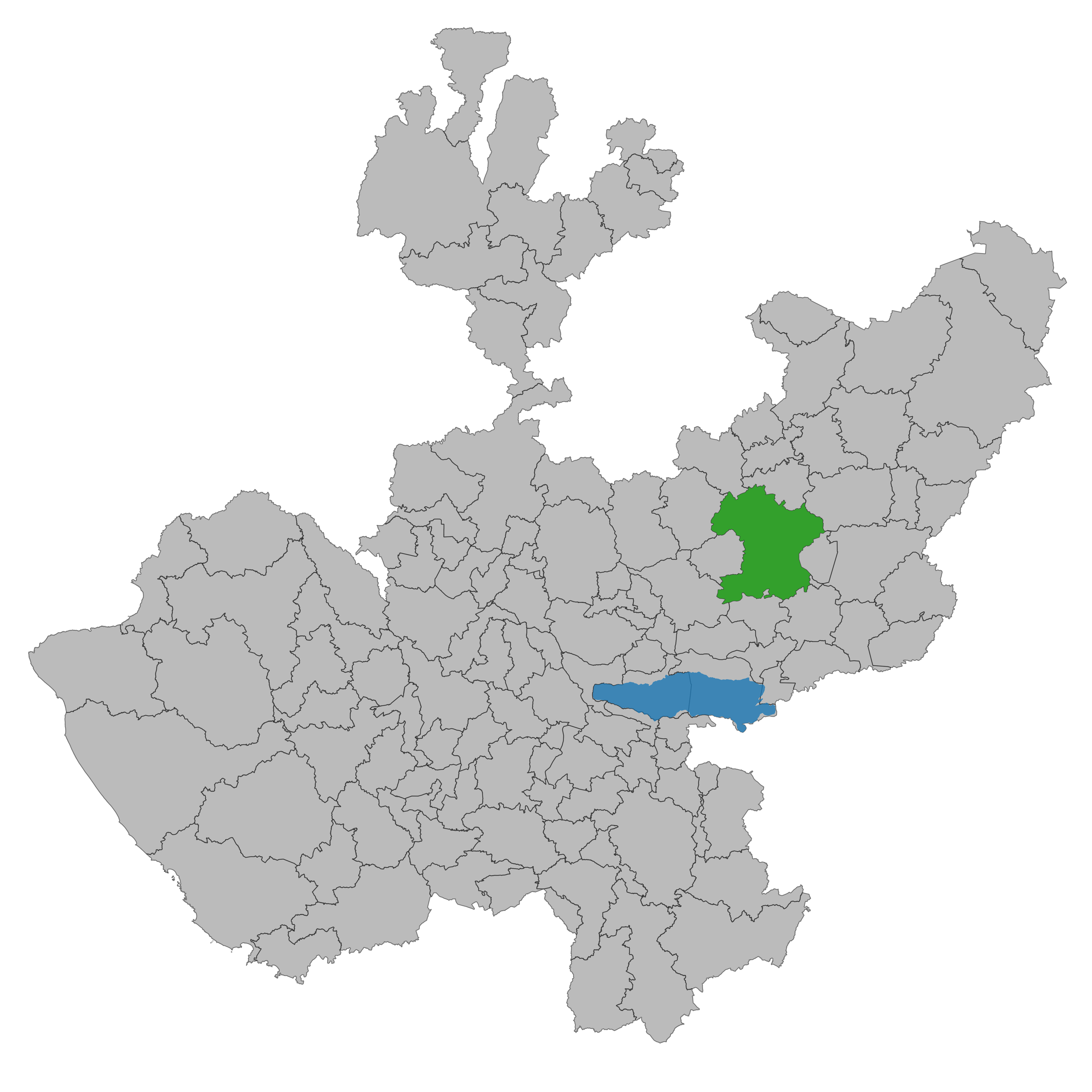 Municipality of Jalisco. Prepared with the software QGIS version 2.8.2 Wien & with information of SCINCE 2010 version 05/2013